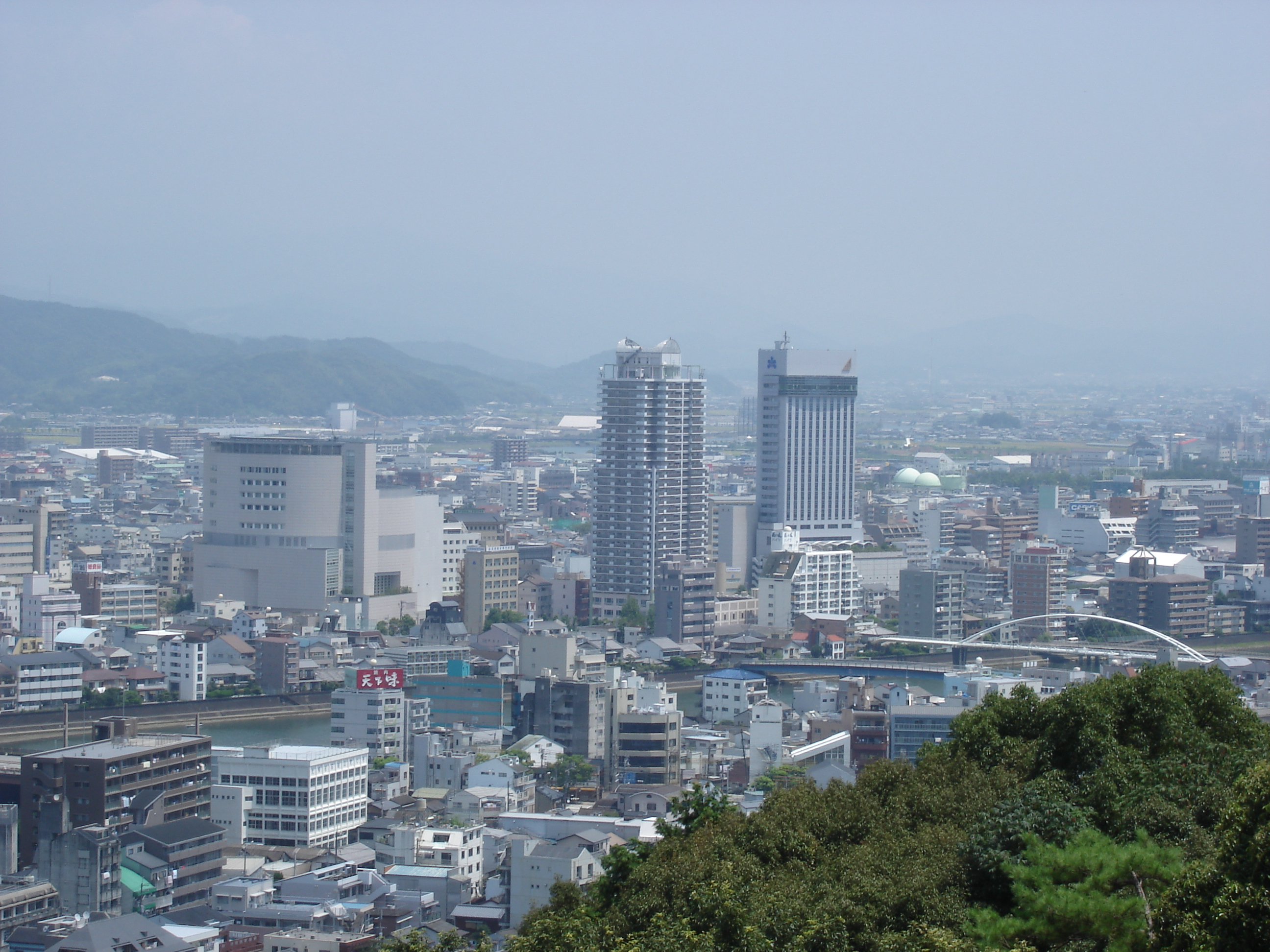 Downtown Kōchi, Japan as seen from nearby mountain